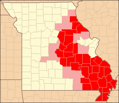 A map of Missouri with counties entirely in the 573 area code colored red and those partially in the 573 area code colored pink